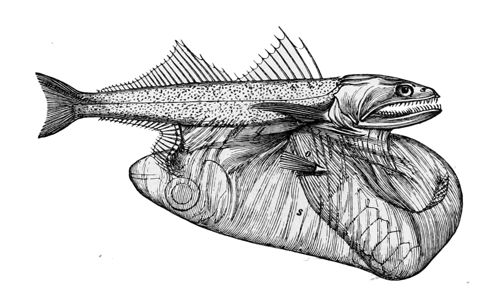 Chiasmodon niger (after having swallowed a large fish)